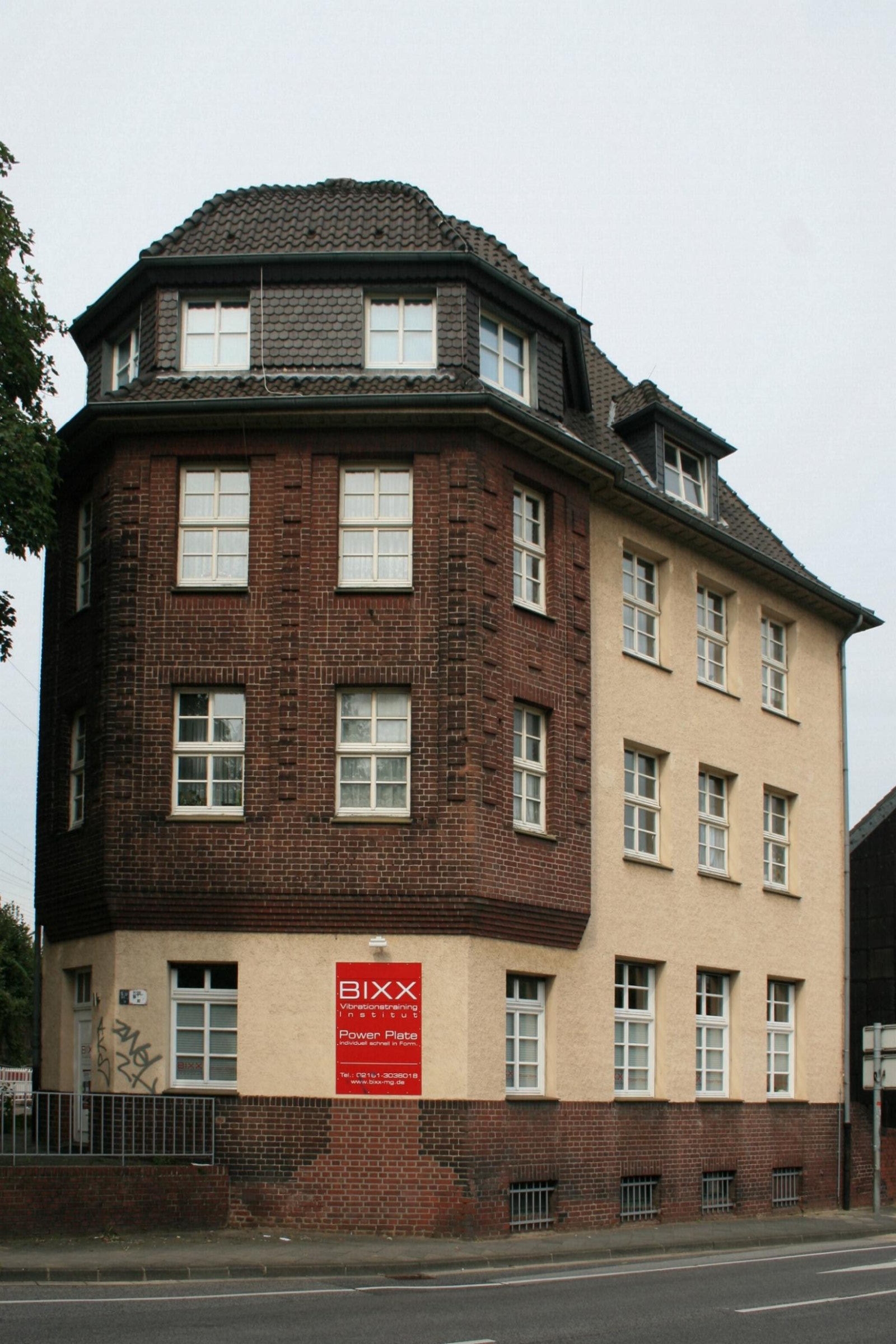 Cultural heritage monument No. K 040 in Mönchengladbach